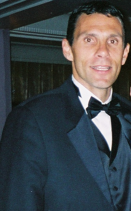 This photo was taken in 2003 (while Gus was a player at Spurs) during a Beating Bowel Cancer charity dinner.